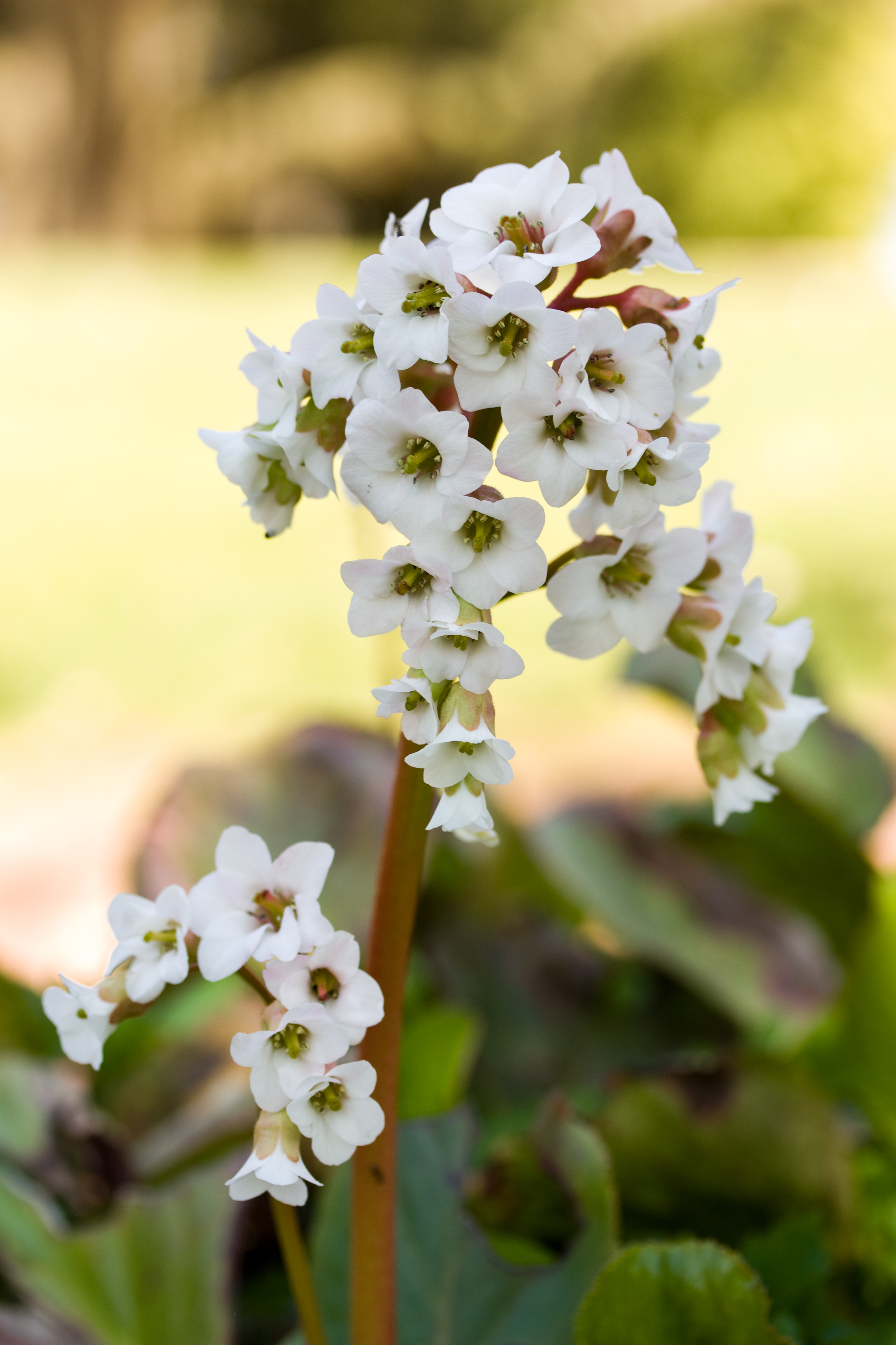 Bergenia 'Bressingham White'. May possibly be Bergenia 'Silberlicht'.